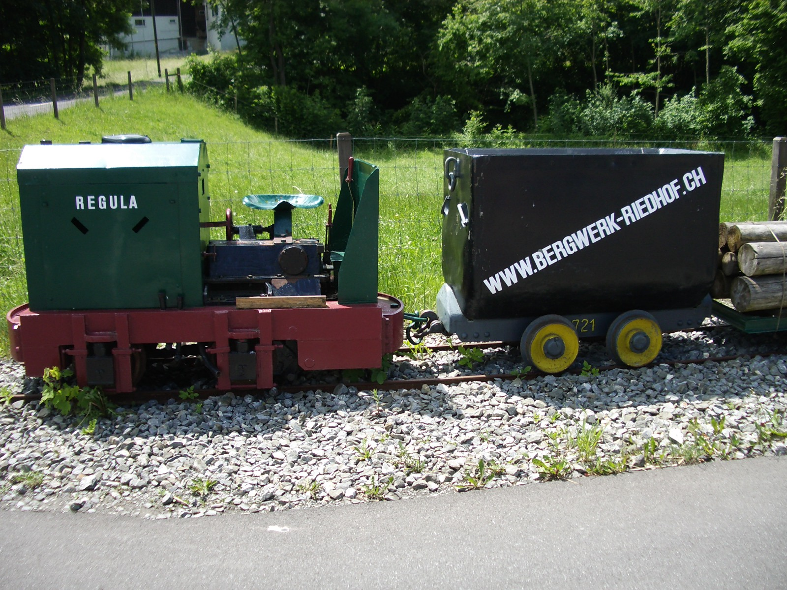 Aeugstertal ZH, Switzerland